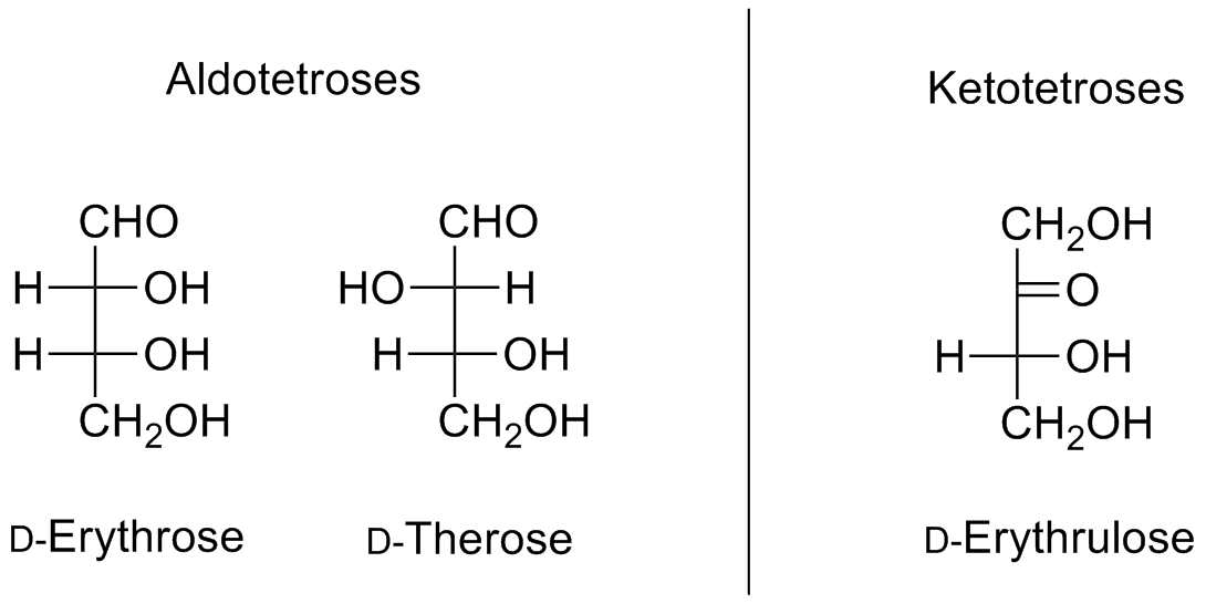 Tetroses